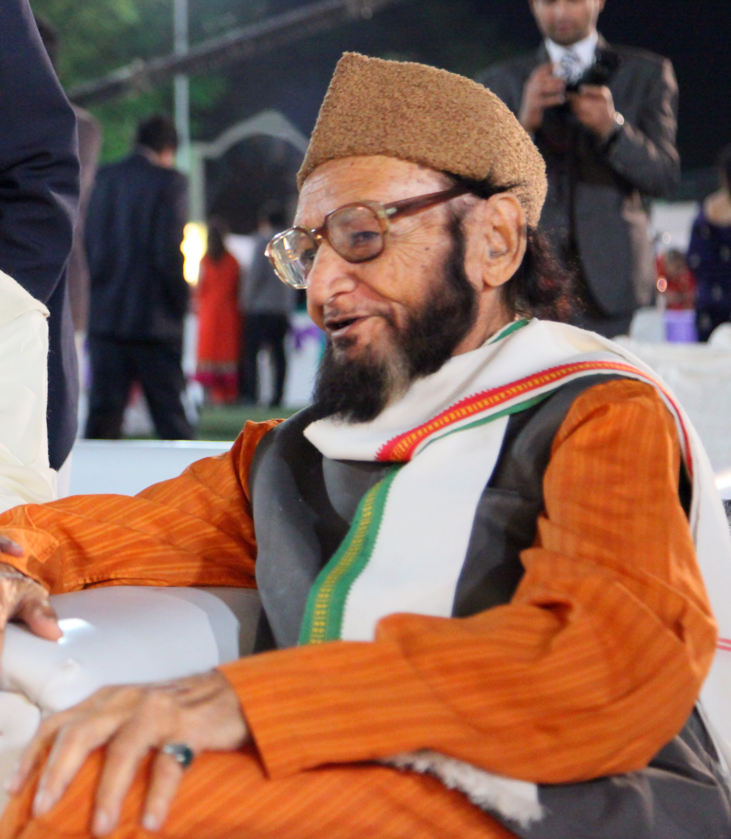 Bekal Utsahi with Ram Naresh Yadav